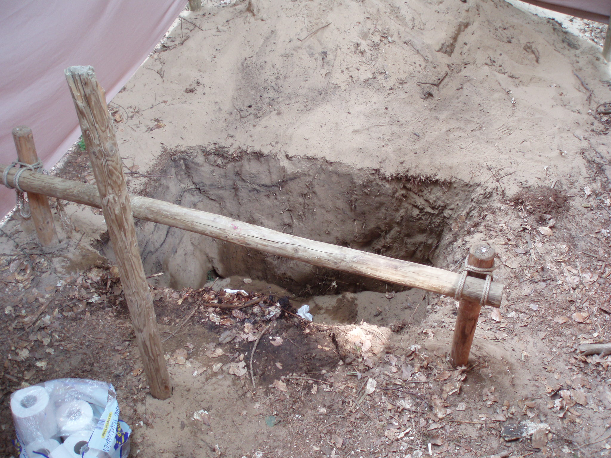 hudo, an outdoor pit toilet in a Scout camp, with a wooden sitting frame and a tarpaulin for coverage. The name is in common use in Dutch and Belgian Scouting, and has international connotation.